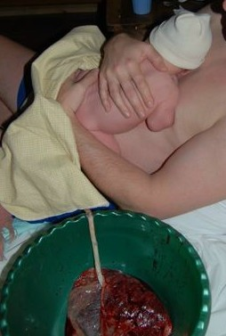 photo of newborn with intact umbilicus, one hour postpartum